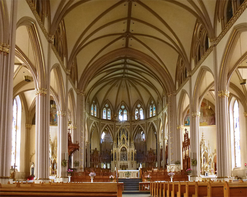 Assomption de Marie Cathedral, Trois-Rivières, Mauricie, Quebec, Canada.